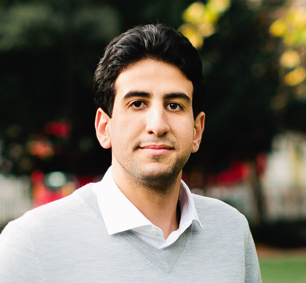 Profile picture